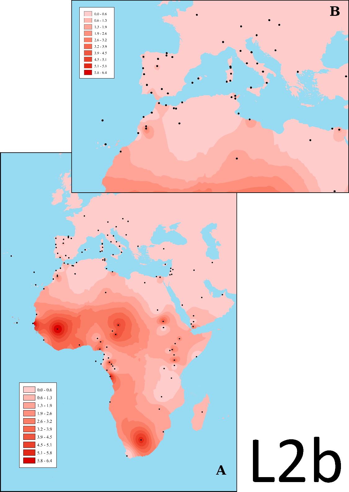 Contour (surface) maps of mtDNA L2b sub-haplogroup. Frequency distributions of these maternal lineages in a broad geographic range and the Mediterranean Basin are shown. Frequencies are expressed in percent (see color scale). Population locations and references can be found in Fig A and Table D in Supporting Information S1 File (PDF).